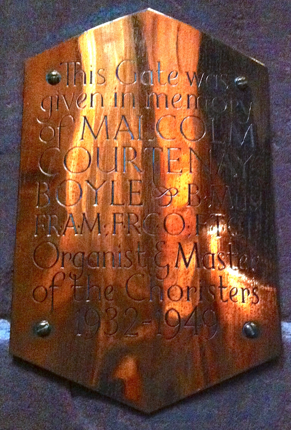 Organist and Master of the Choristers 1932 - 1949